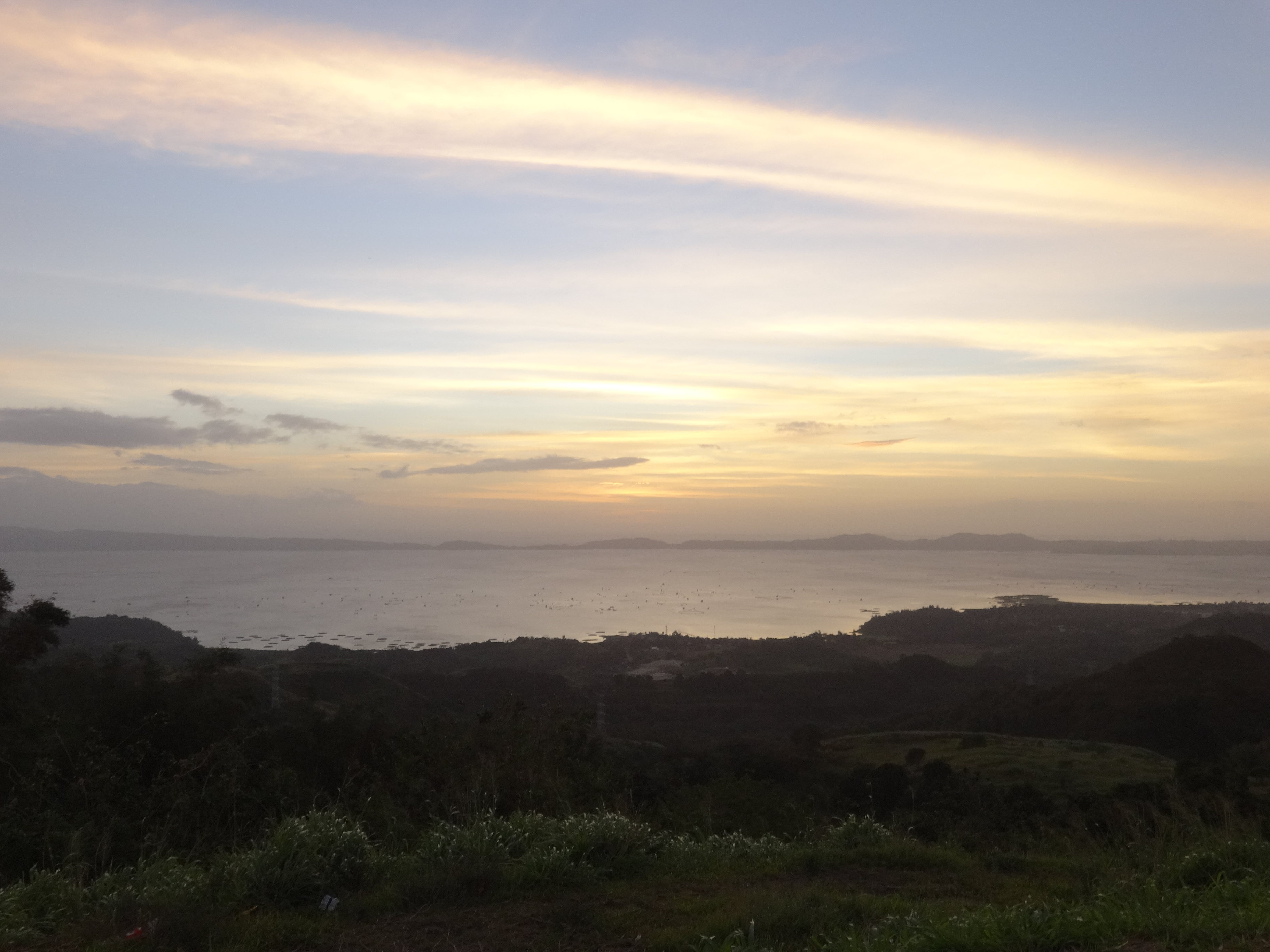 Sunset view of Laguna De Bay from Pililla, Rizal